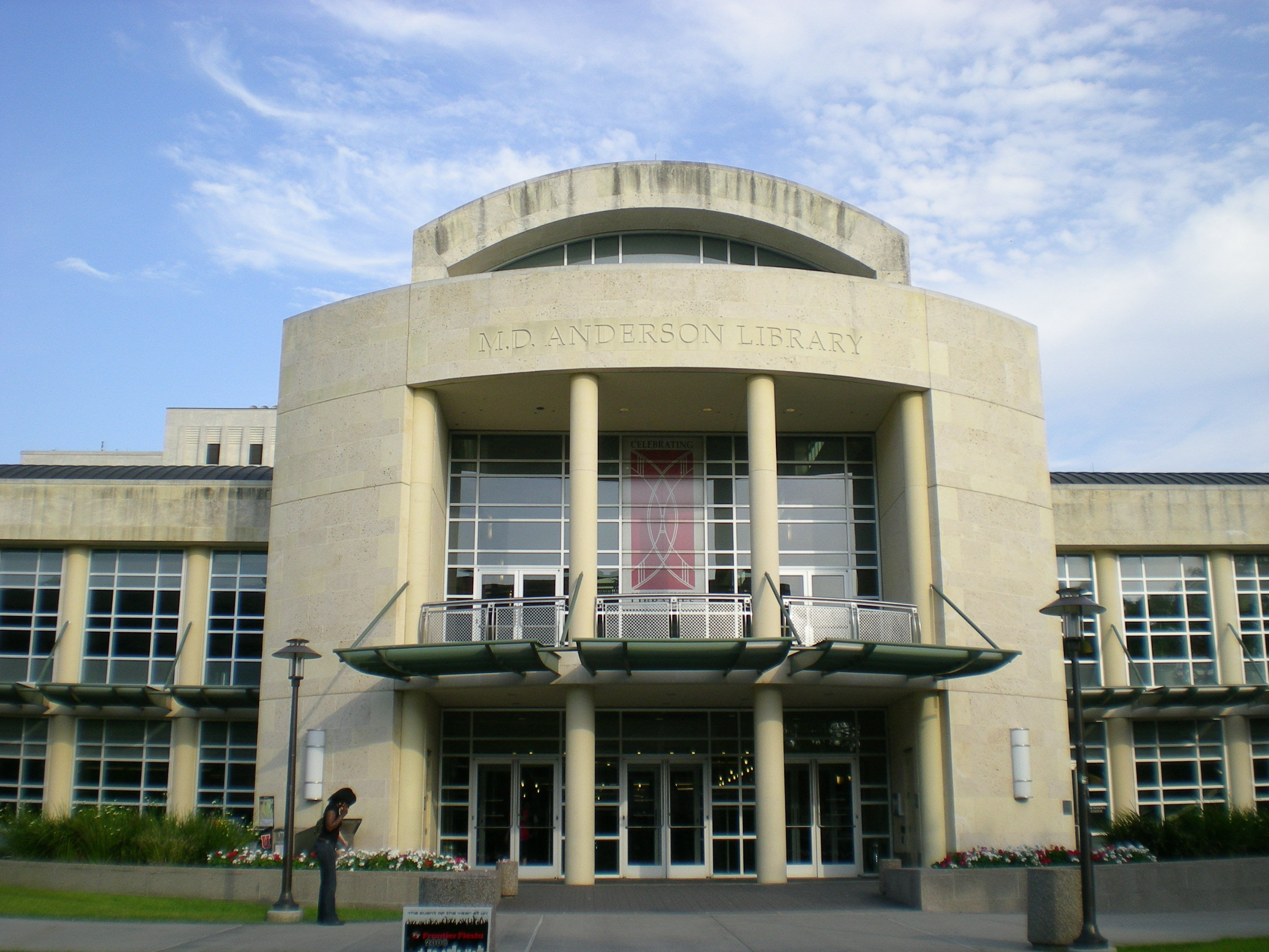 A close-up view of the front entrance to the University of Houston's M.D. Anderson Library.